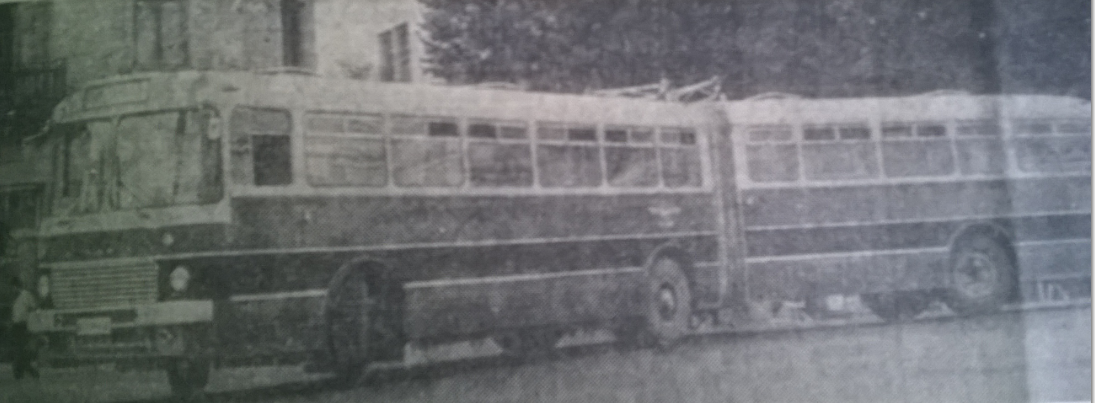 Ikarus 180,Veliko Tarnovo